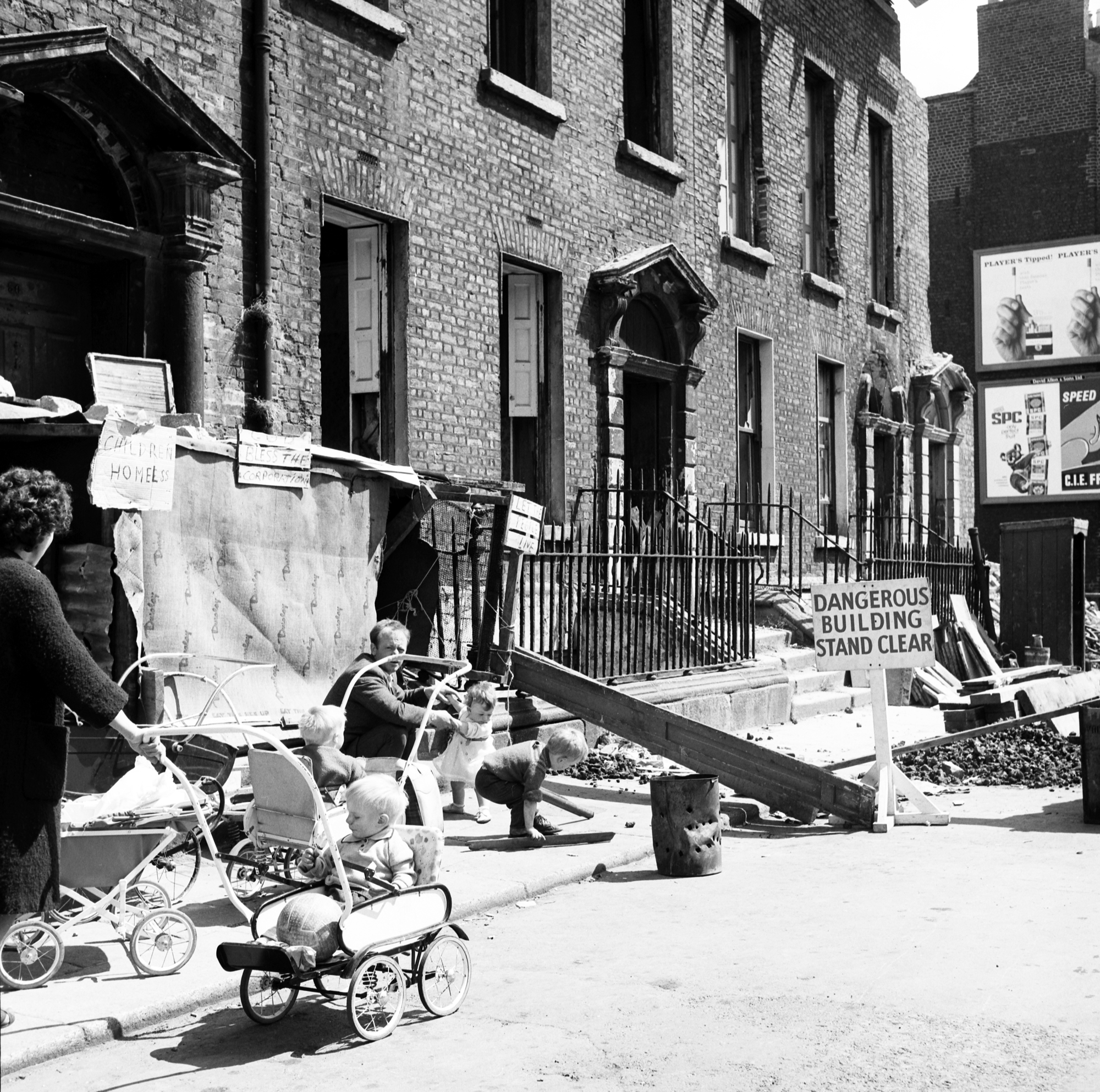 Protest against evictions from tenement buildings on York Street in Dublin captured by Elinor Wiltshire and her Rolleiflex camera. Date: Circa June/July 1964 NLI Ref.: WIL 3[8]